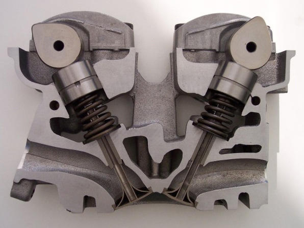 Cut through a DOHC cylinder head